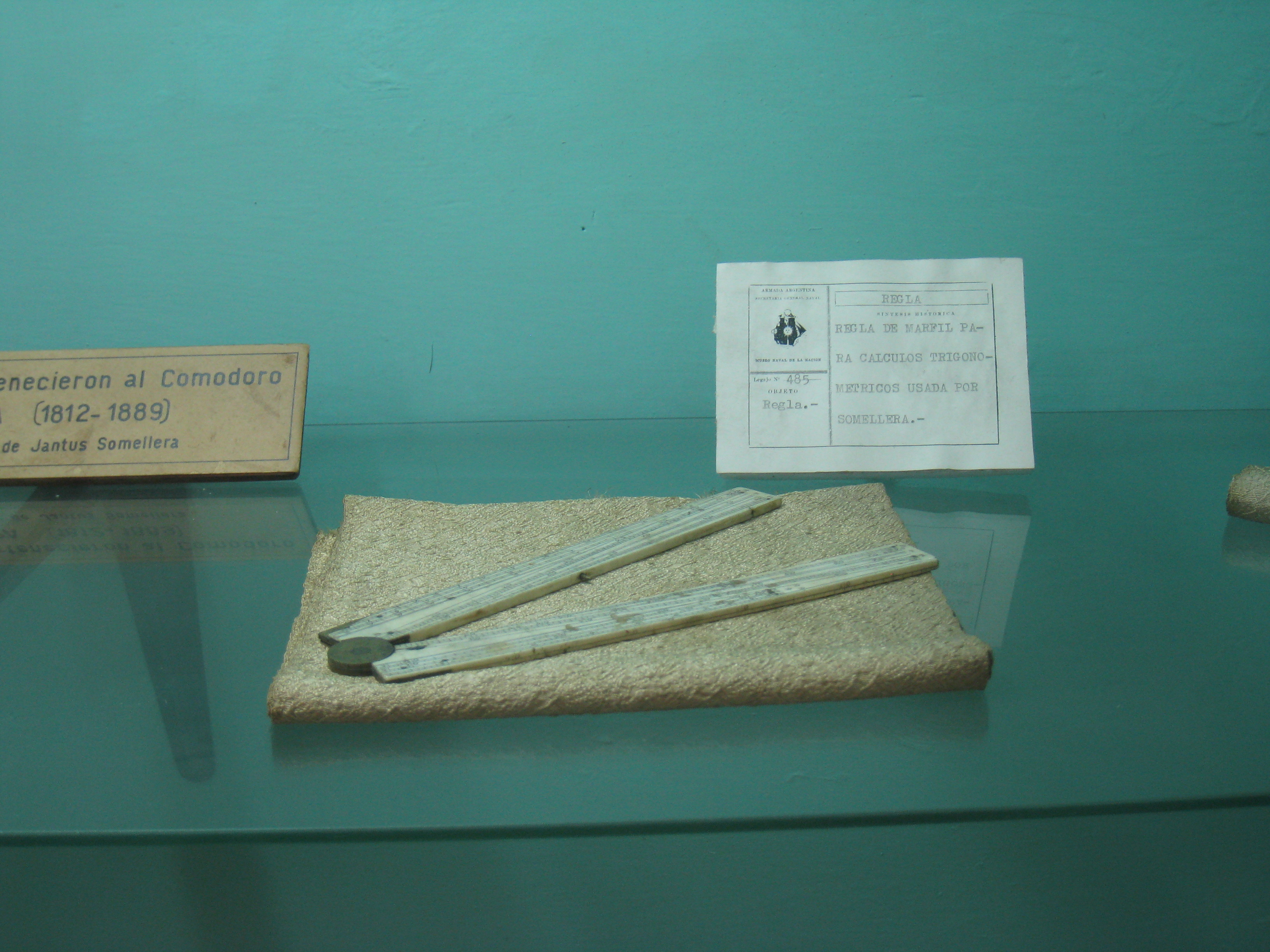 Ivory ruler in the Museo Naval de la Nación en Tigre, Argentina. Used for trigonometric calculations, such as solving the spherical triangle.